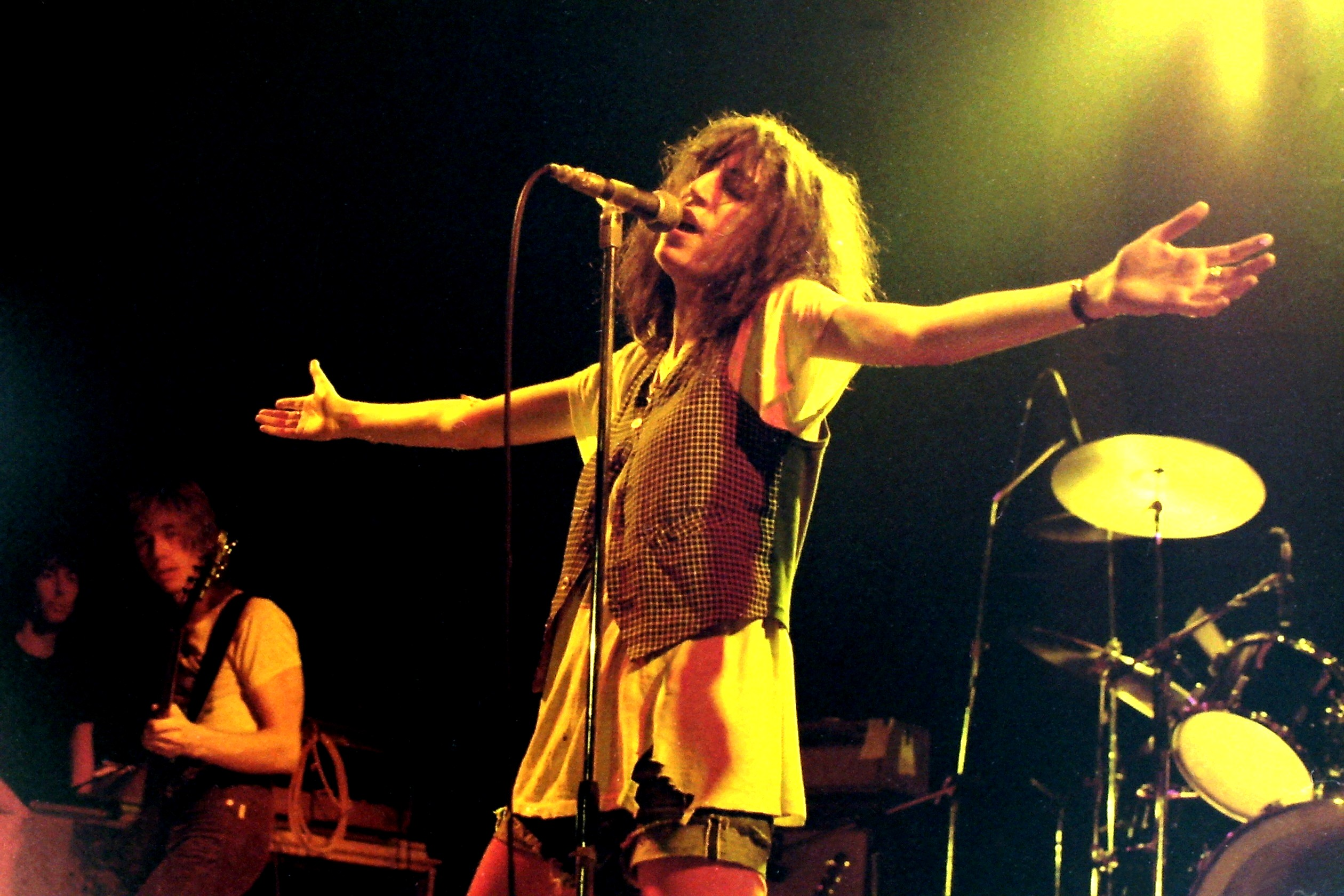 Patti Smith performing im Mannheim, Rosengarten, Germany